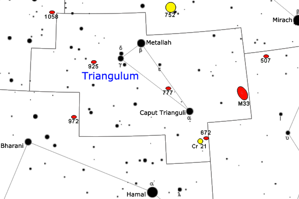 Map of Aries and Triangulum